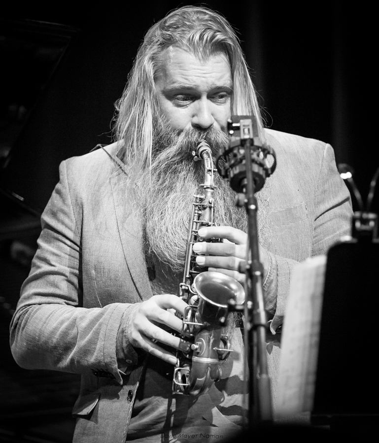 Trygve Seim with The Oslo Jazz Festival Orchestra 2016 at the stage of Nasjonal Jazzscene Victoria. The concert was part of the Oslo Jazz Festival in Norway and took place on 19. August 2016. Lineup:Mathias Eick (trumpet)Trygve Seim (saxophone)Jon Balke (piano)Ellen Andrea Wang (double bass)Gard Nilssen (drums)